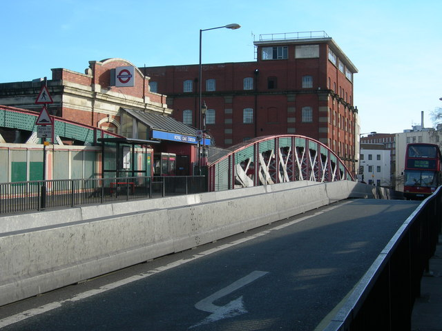 Lord Hills Bridge, W2 This photo also shows Royal Oak tube station. The bridge not only crosses the Hammersmith and City Line, but also the main line out of Paddington. The bus in the background is a number 36 going to Queens Park.